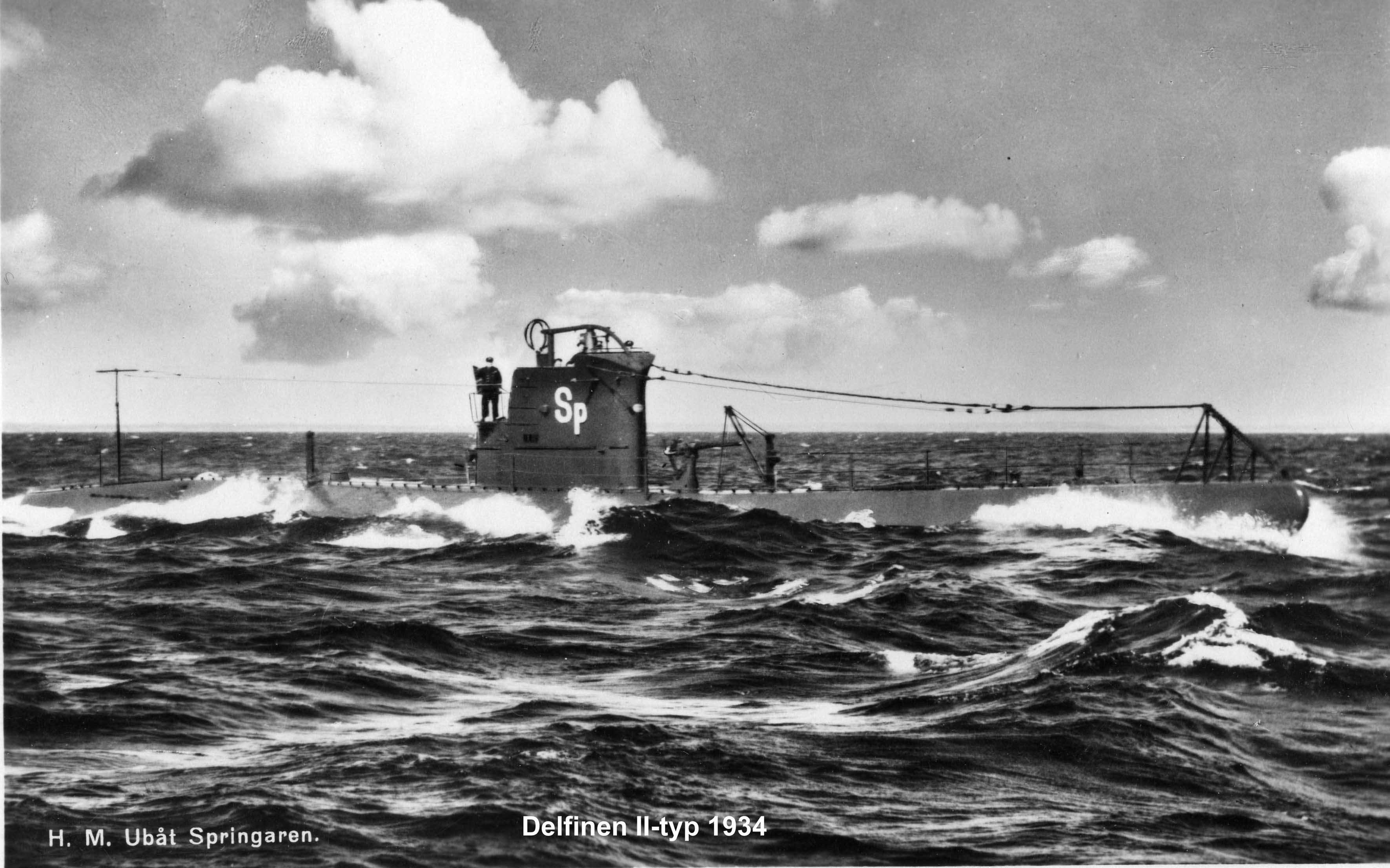 Picture from 1935 of the Swedish submarine HMS Springaren. The ship was laid down in 1935, delievered in 1937 and decommissioned in 1953.